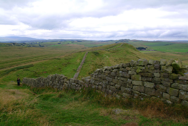 Hadrian's wall viewed from near Greenhead.